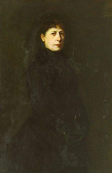 The famous portrait of the mother of Princess Vilma Lwoff-Parlaghy. This painting won a Gold Prize in Vienna and a Minor Gold Prize in Berlin. It was exhibited in the Salon, in Paris and got very good critics.